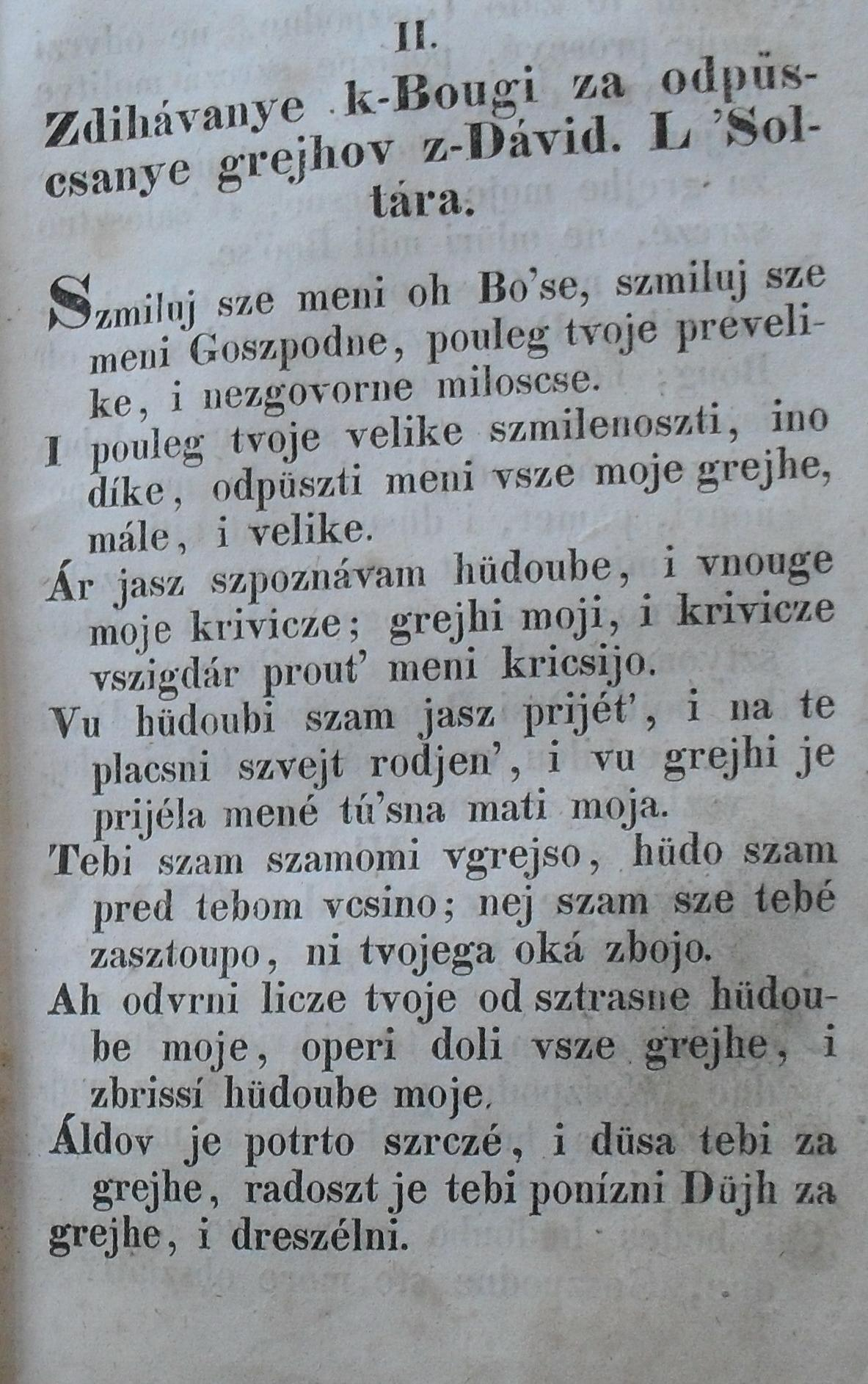 Psalm 50 (51 in the Hebrew numbering) in a Prekmurje Slovene prayerbook (1847)